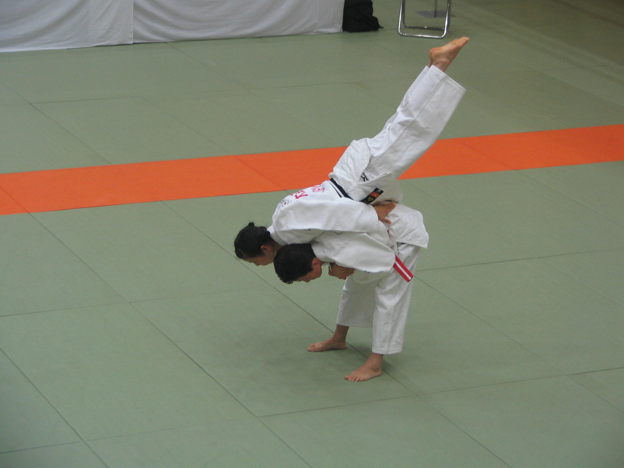 Kata form of KODOKAN judo